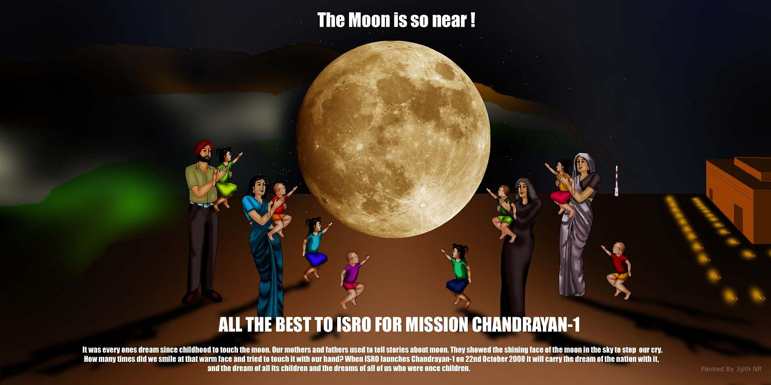 A painting by me to comemmorate ISRO's successful Chandrayan-I mission